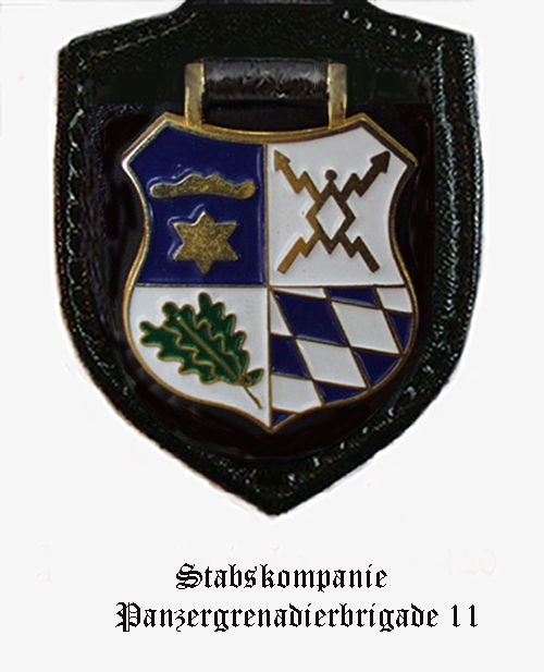 Internal coat of arms Stabskompanie Panzergrenadierbrigade 11 (StKp PzGrenBrig 11) of the Bundeswehr (Armed Forces of the Federal Republic of Germany). → Remarks on naming and categorization scheme